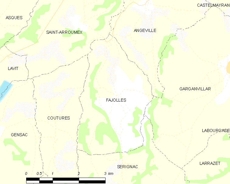 Map of French municipality Fajolles